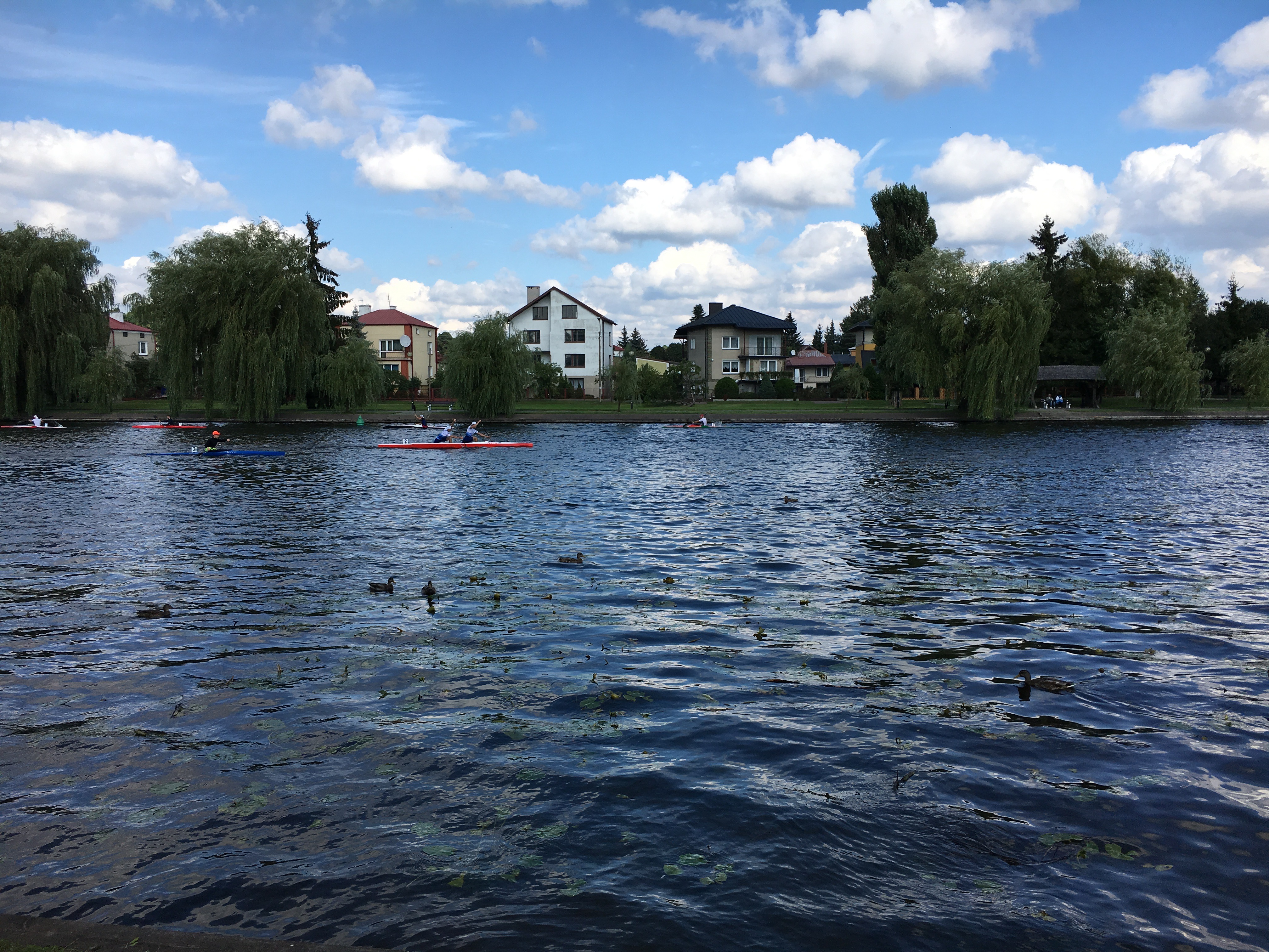 Kayaks in Augustów